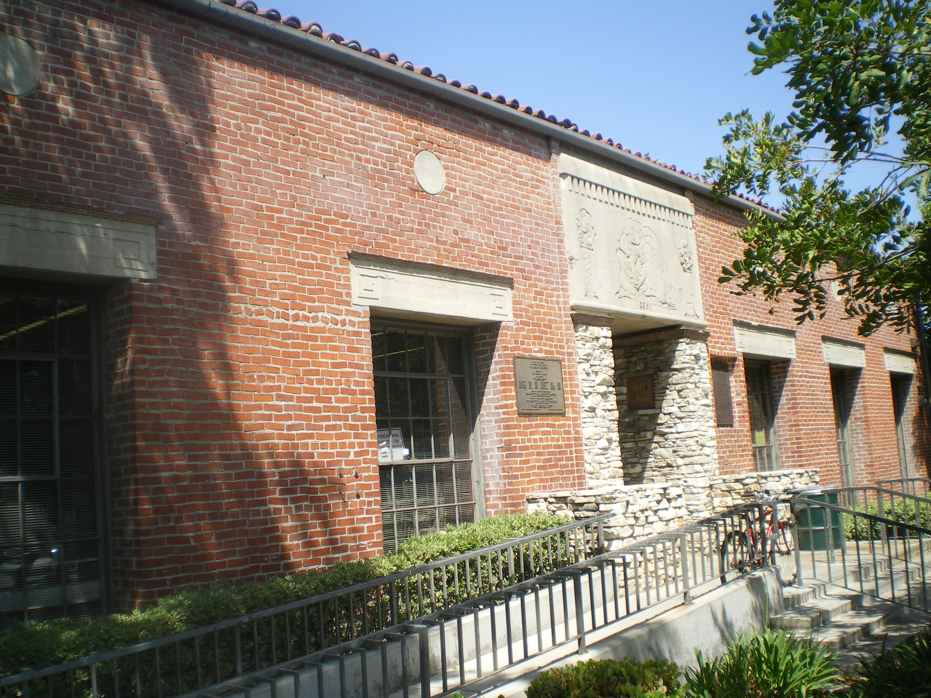 Facade — Malabar Branch Library. 2801 Wabash Ave., Boyle Heights, Los Angeles, California. Los Angeles Historic-Cultural Monument, and on the National Register of Historic Places.